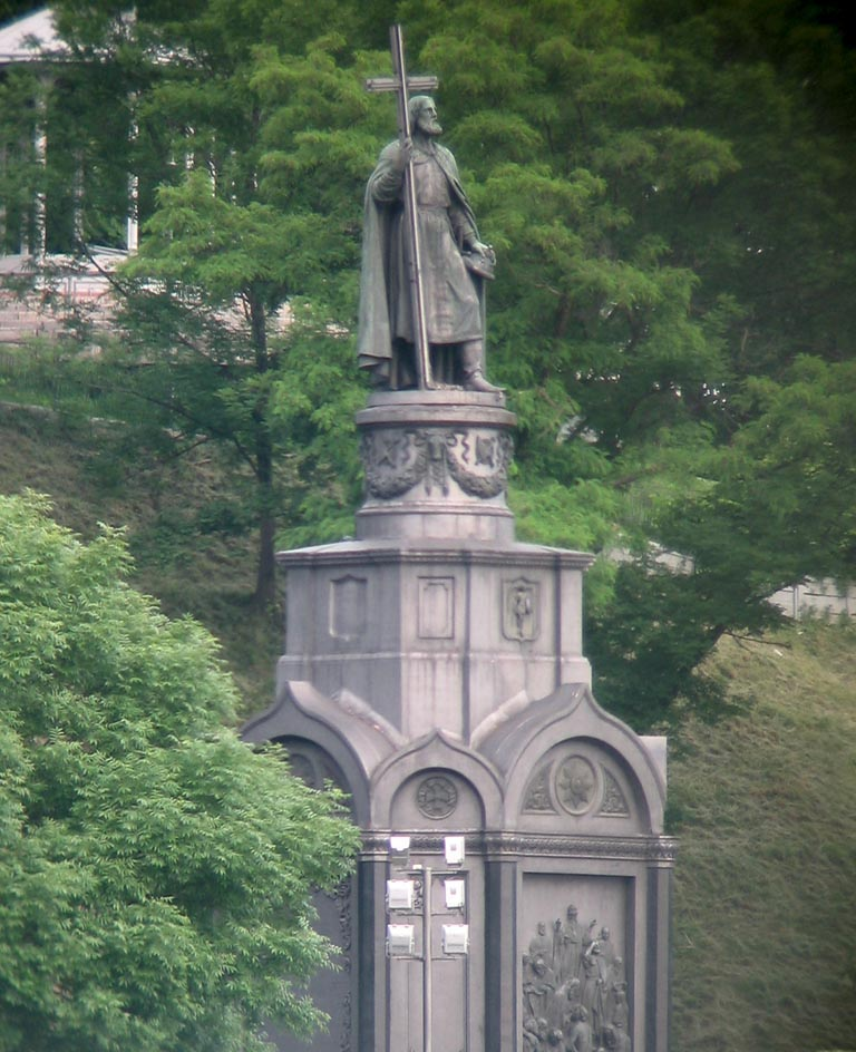 Description: The famous statue of St Vladimir, opened in en:1853, overlooks the steep bank of the Dnieper River in Kiev. Sculptors: Peter Klodt von Urgensburg, Vasily Demuth-Malinovsky. Architect: Konstantin Thon.